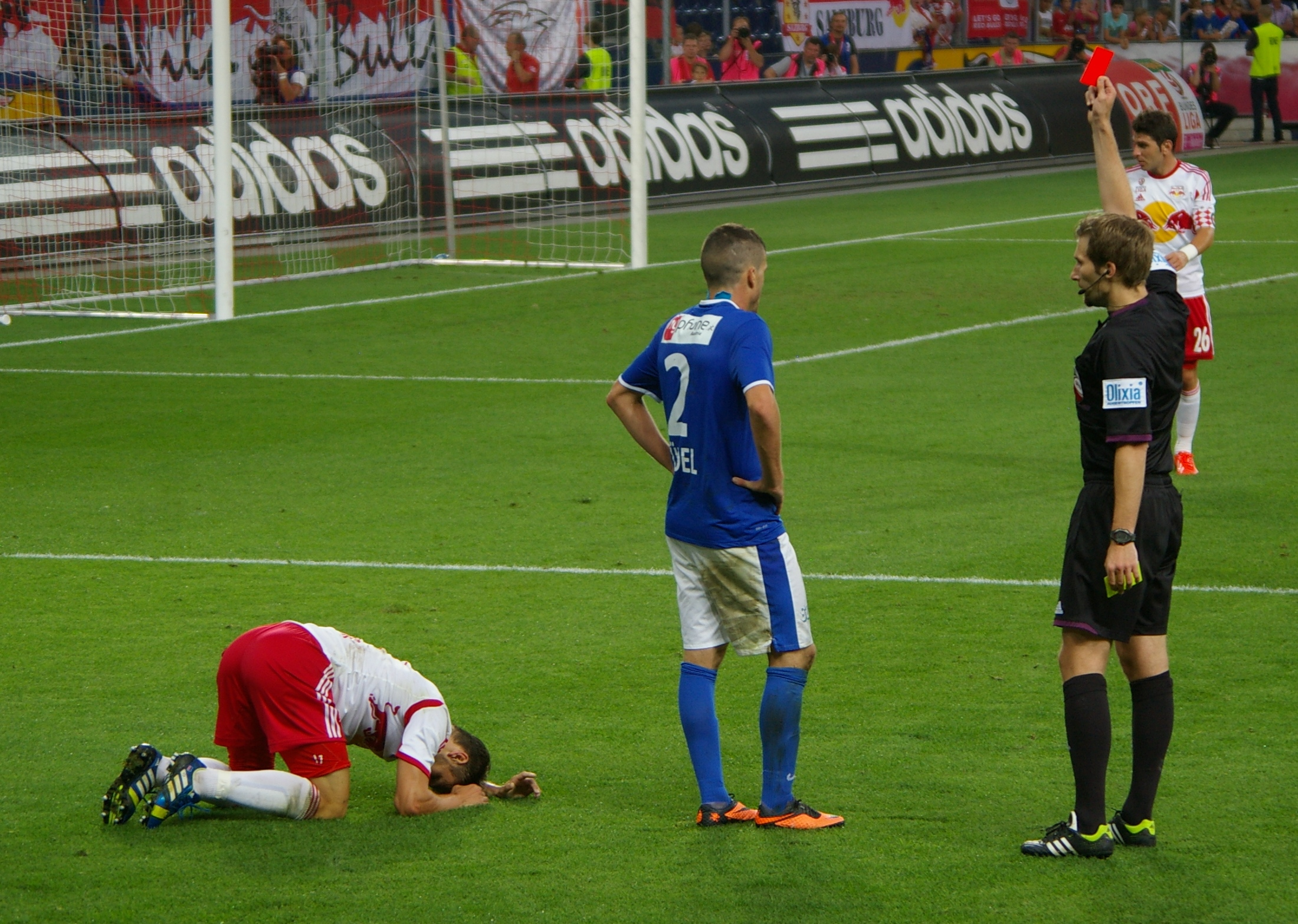 league match